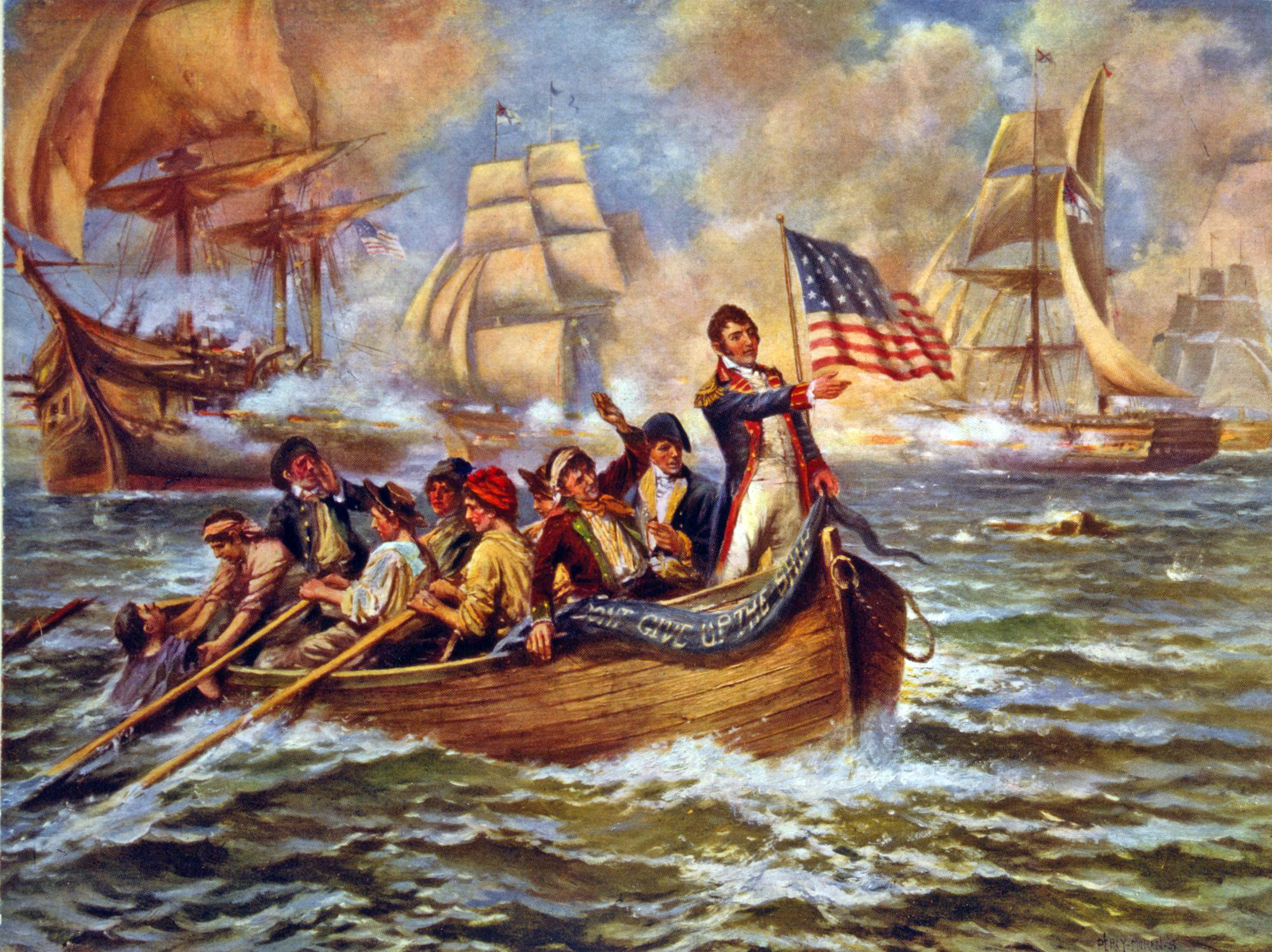 Oliver Hazard Perry standing on front of small boat after abandoning his flagship, the Lawrence at the Battle of Lake Erie.